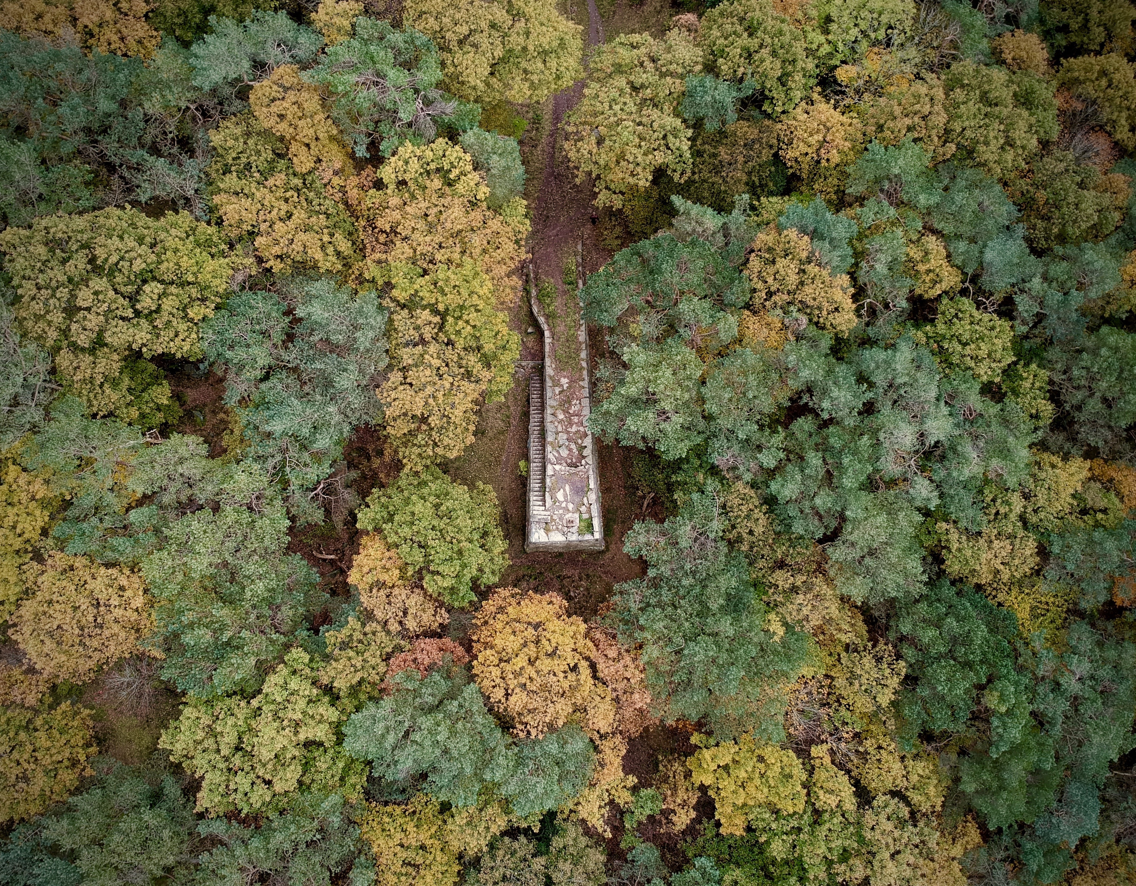 Old ski jumping tower in Gothenburg, Sweden.